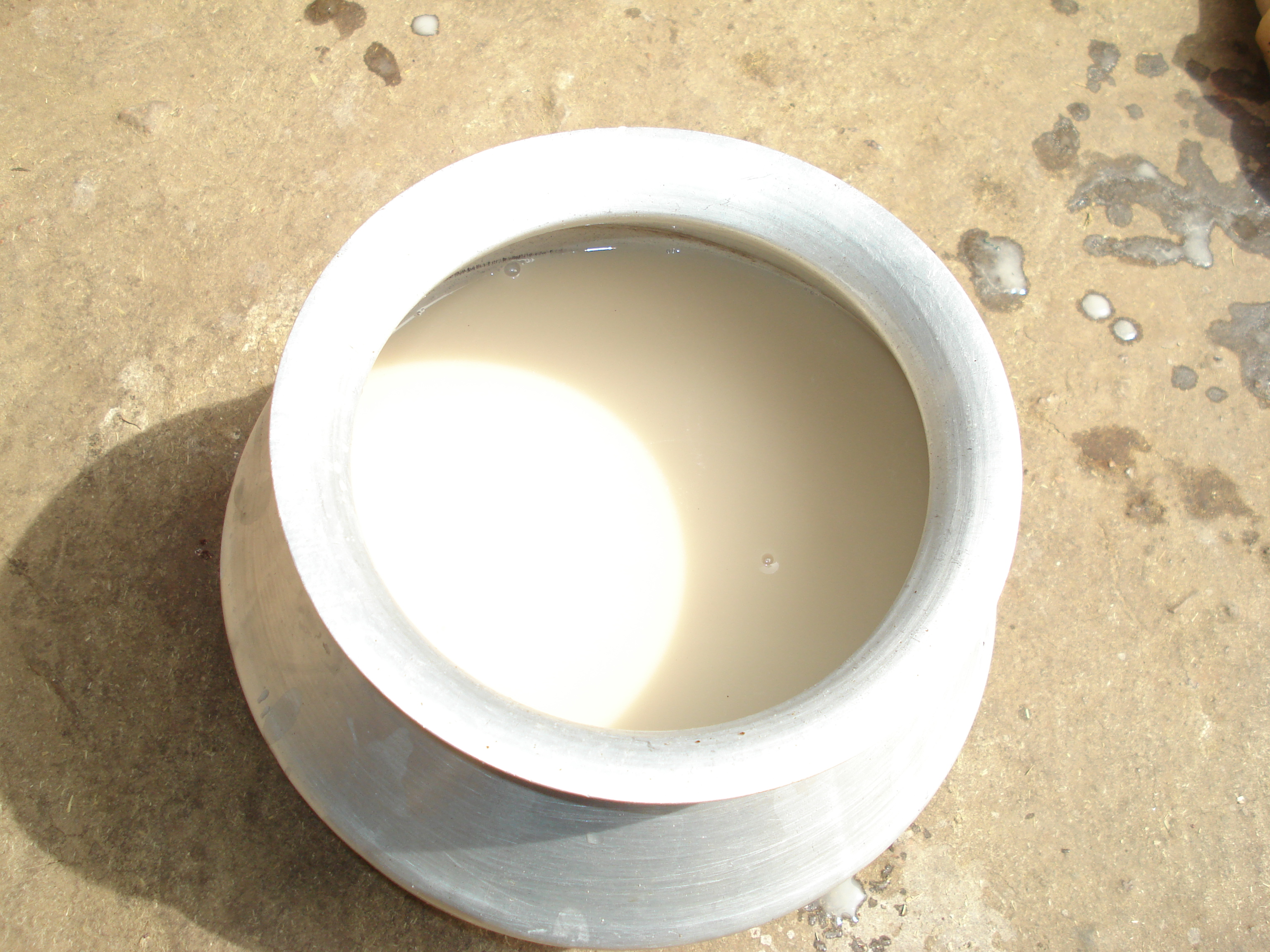 Finished Product"Handia: The country liquor"